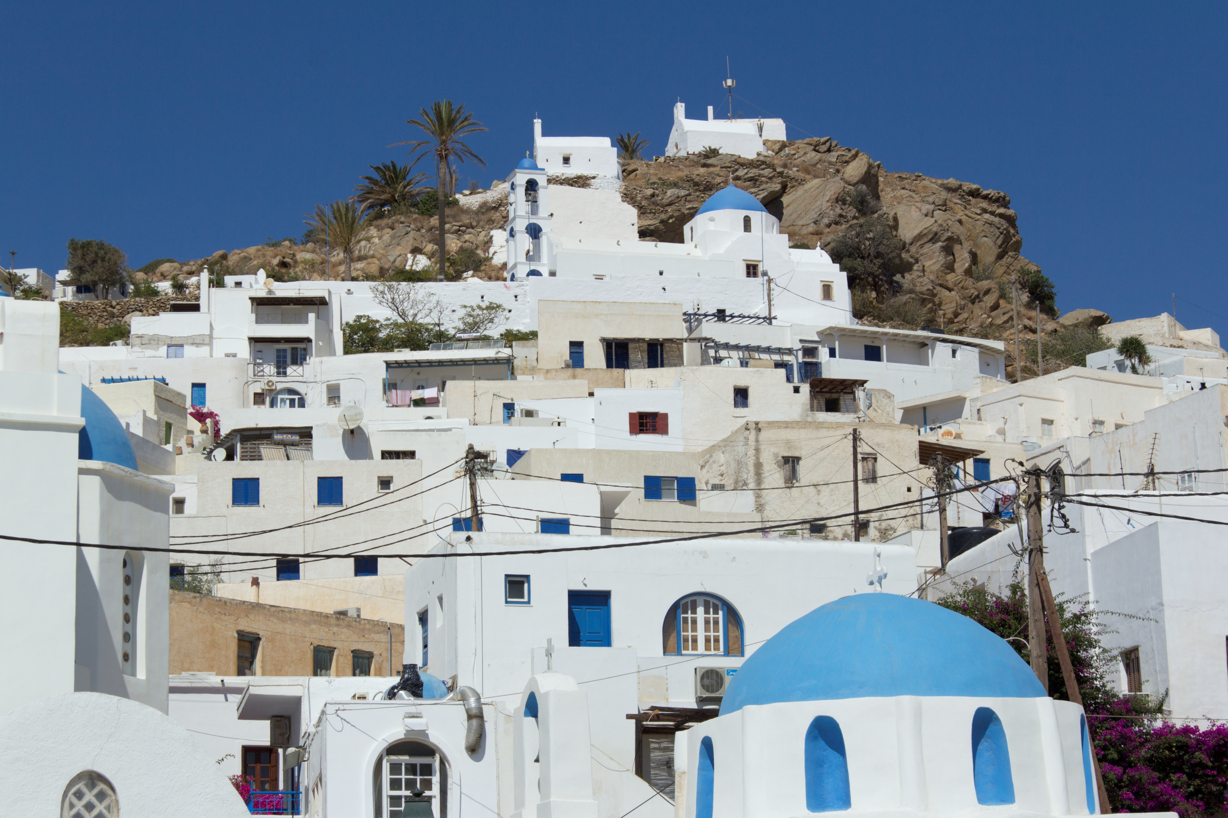 Kastro of Chora of Ios island, view from the square.